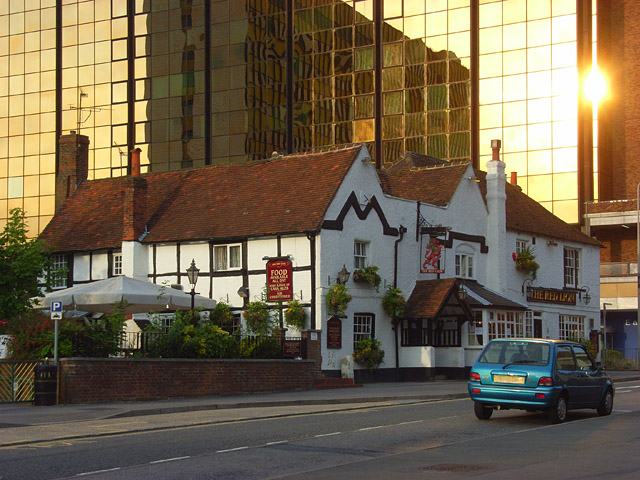 The Red Lion, Bracknell The late 16th / early 17th century pub on High Street is now dwarfed by various office blocks near the town centre. It is one of 34 listed buildings within the new town of Bracknell. With one exception, these listed building are old ones that pre-date the establishment of the new town.